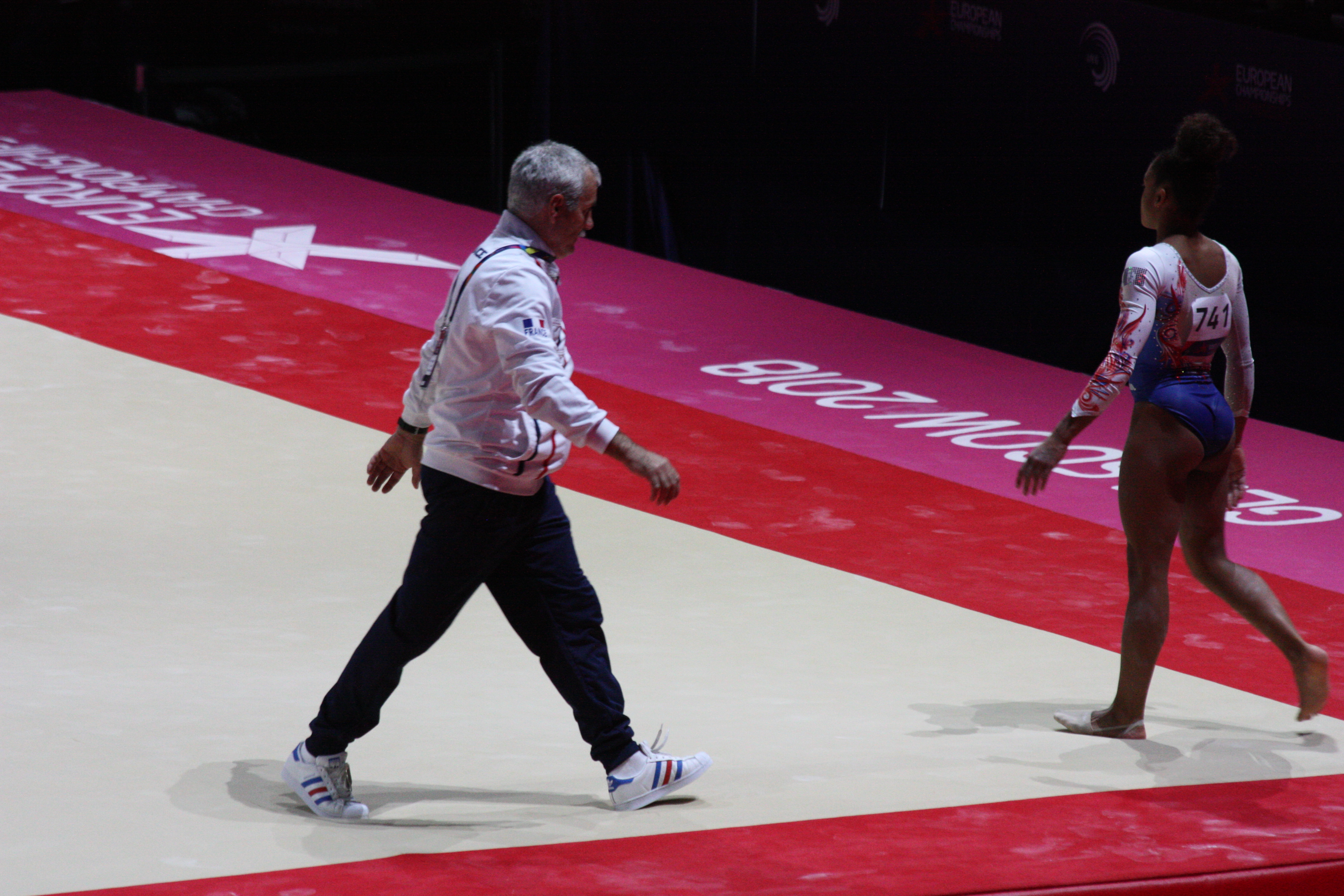 Mélanie de Jesus dos Santos and her coach Éric Hagard during the warm-up in floor of the qualifications at the European championships in Glasgow in 2018.